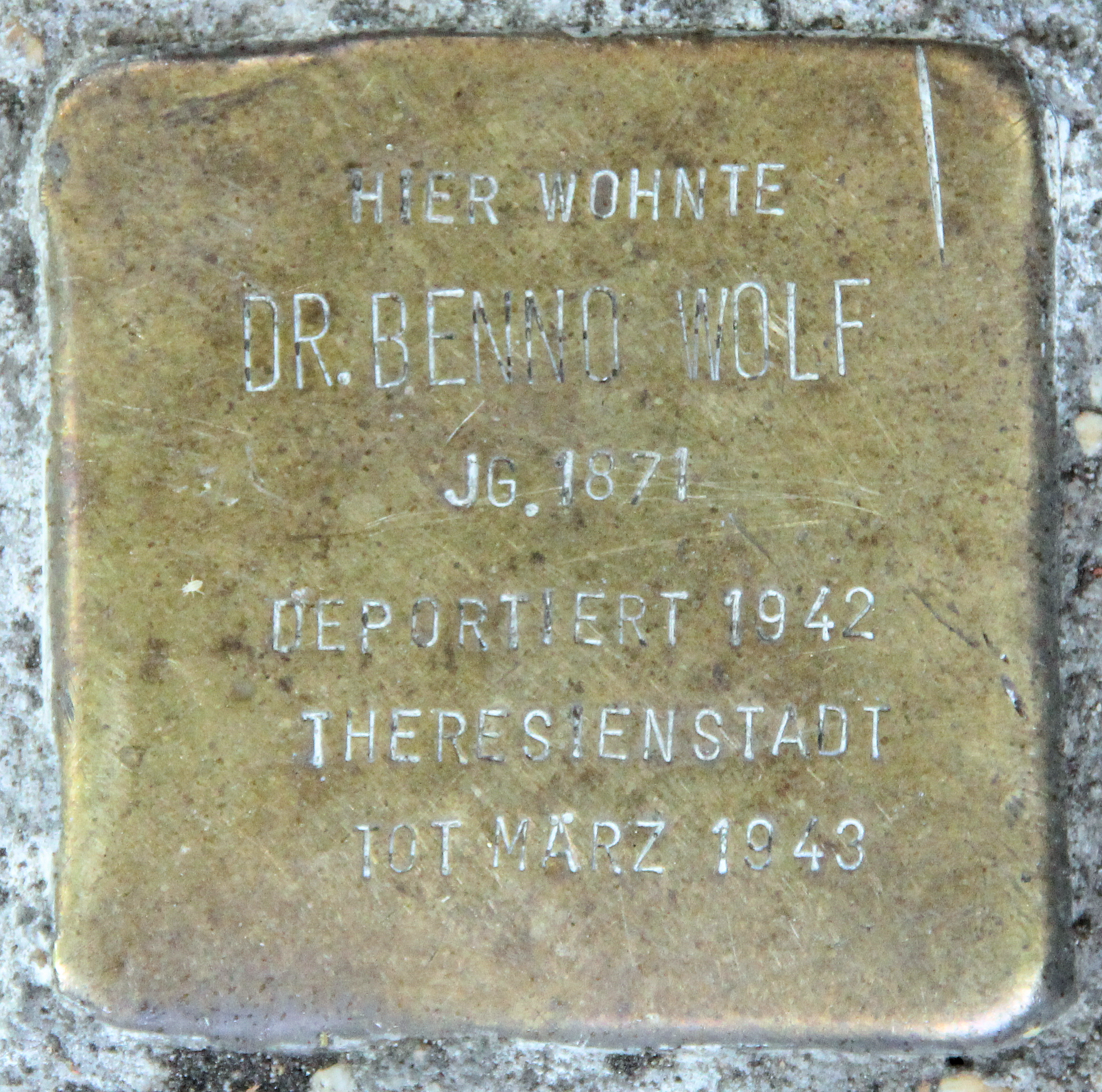 "stumbling block", Benno Wolf, Hornstraße 6, Berlin-Kreuzberg, Germany Koordinate:52°29′40″N 13°22′55″E / 52.49444°N 13.38194°E